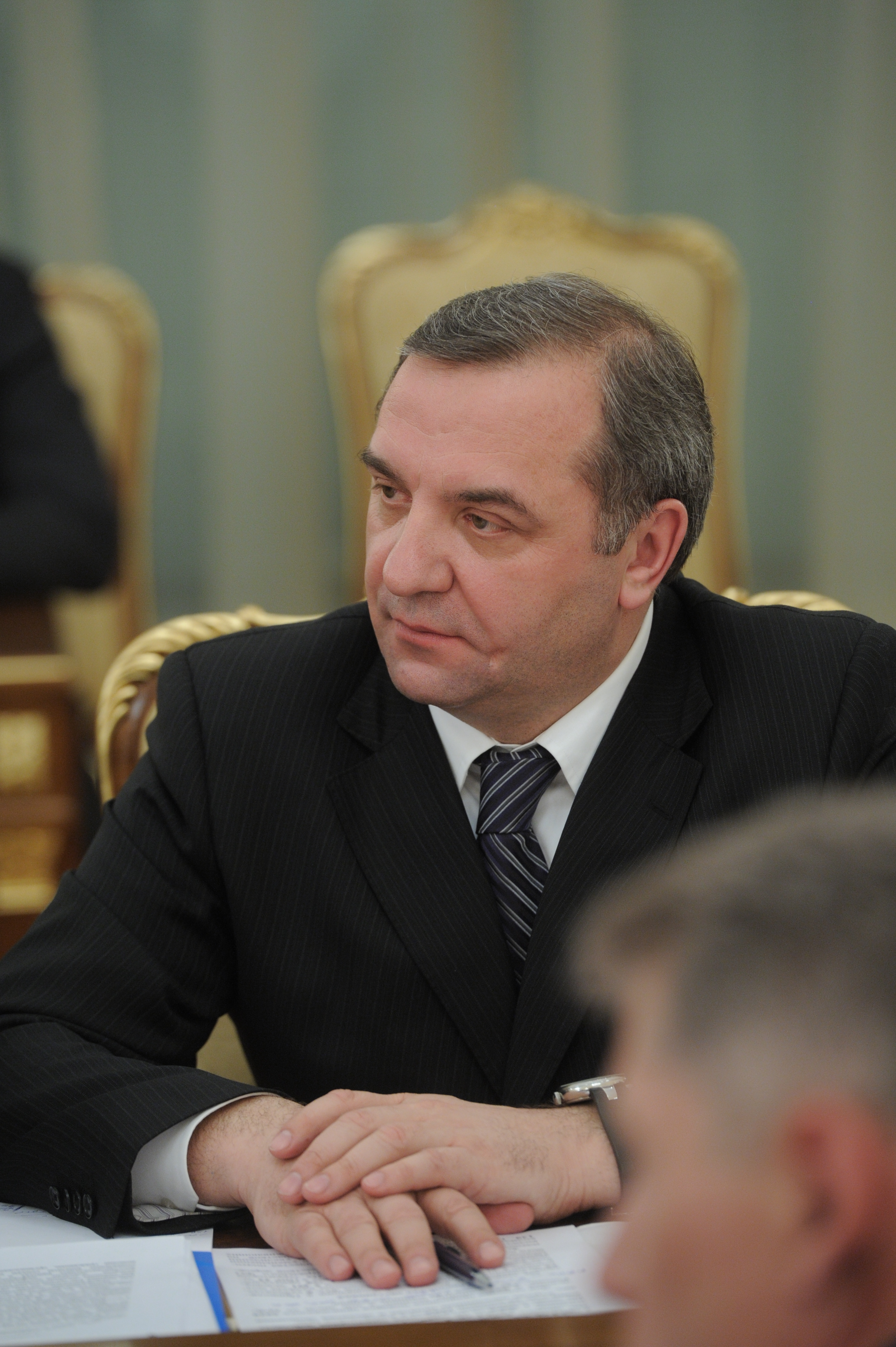 State Secretary and Deputy Minister of Civil Defence, Emergencies and Disaster Relief Vladimir Puchkov. Minister of Emergency Situations since May 2012.